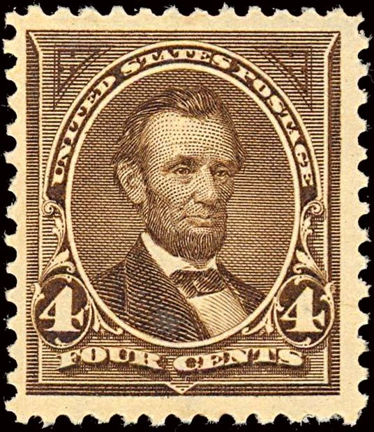 US Postage Stamp, Abraham Lincoln, 1895 Issue, 4c, brown